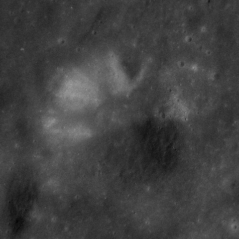 Emory crater, Taurus–Littrow valley, on the moon. Sun elevation 46 deg., spacecraft altitude 112 km.